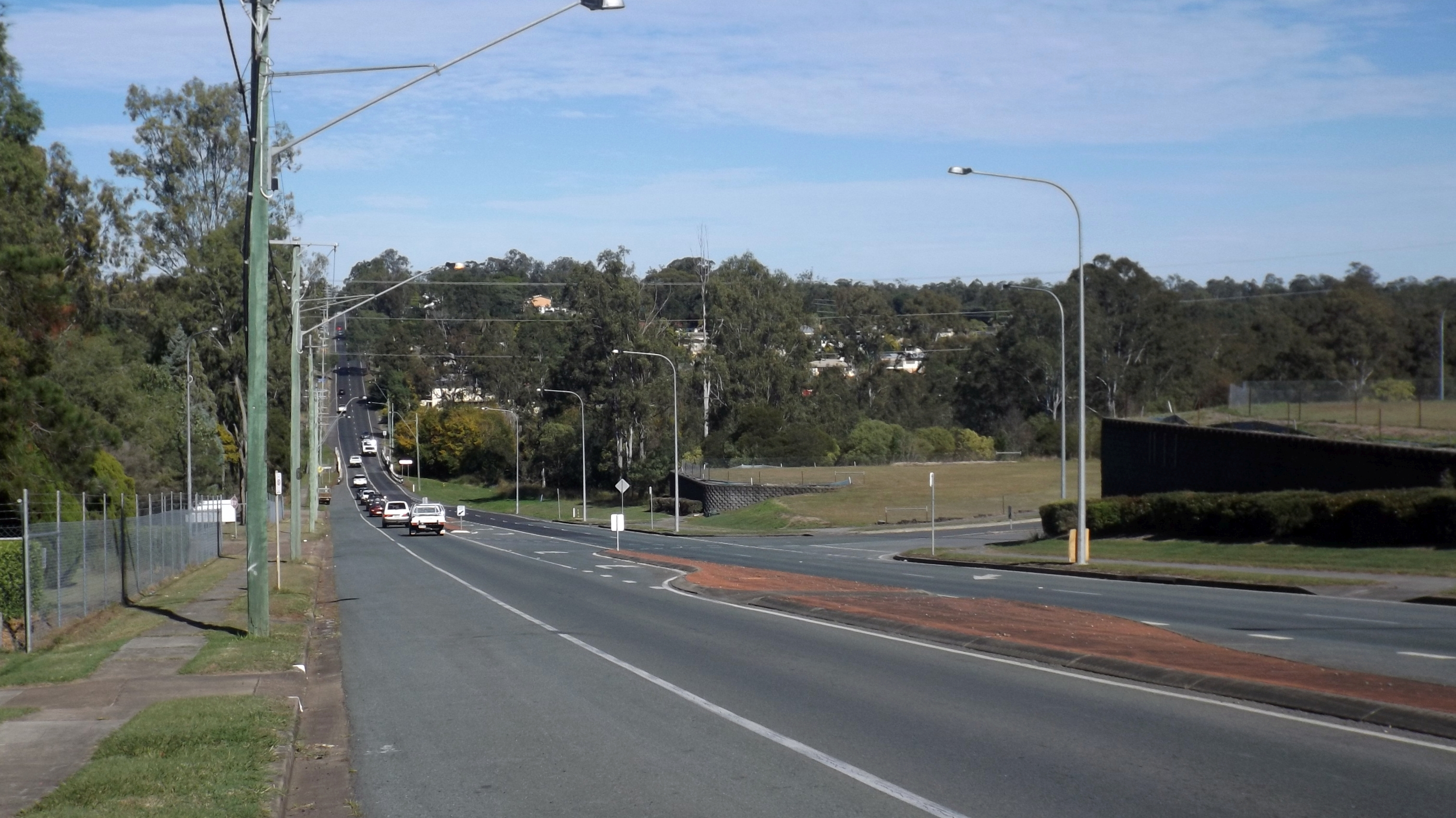 Photo of Mount Crosby Road North Tivoli in Ipswich, Queensland, Australia. Houses in Tivoli can be seen in the background. The road bridge crosses Sandy Creek.